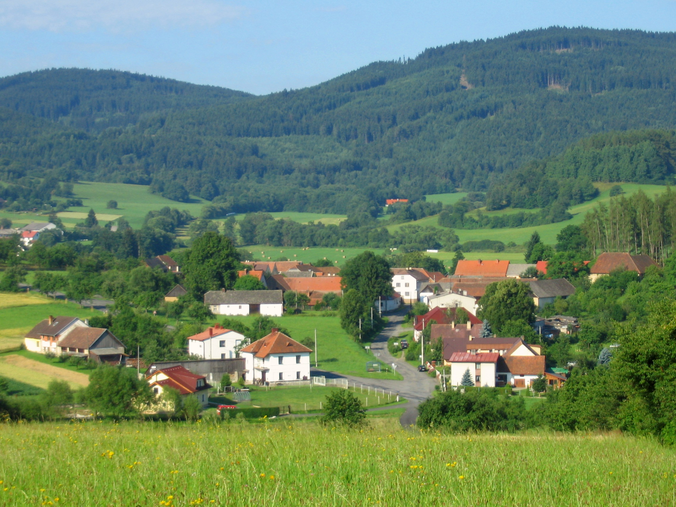 Rozsedly seen from the north-east with Sedlo (902 m) on the right, Klatovy District, Czech Republic